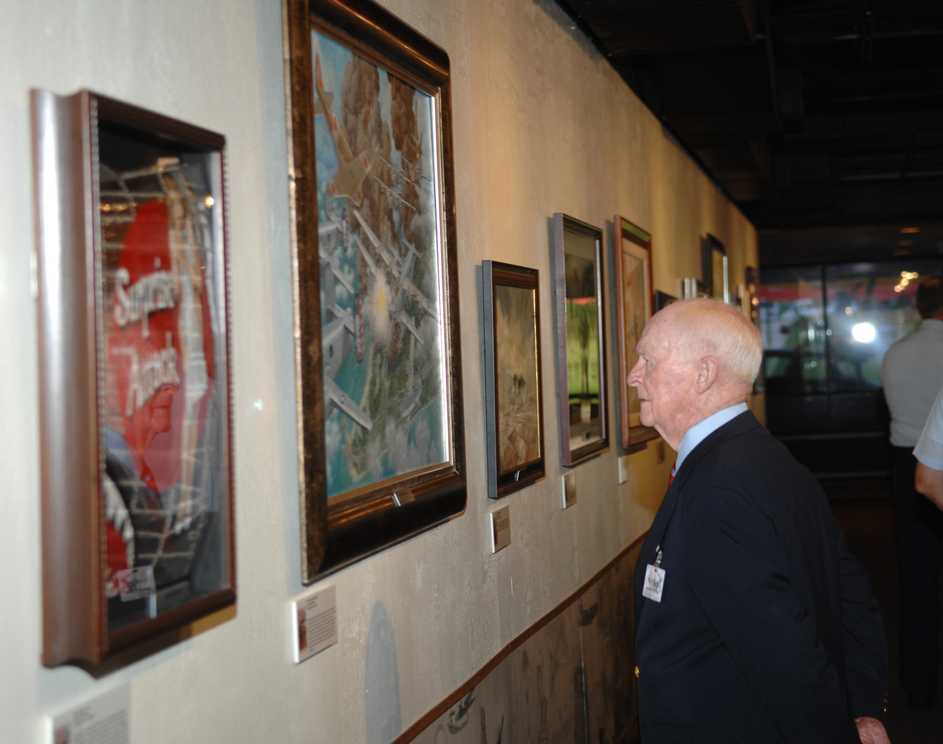 Retired USAF General William V. McBride in 2007.